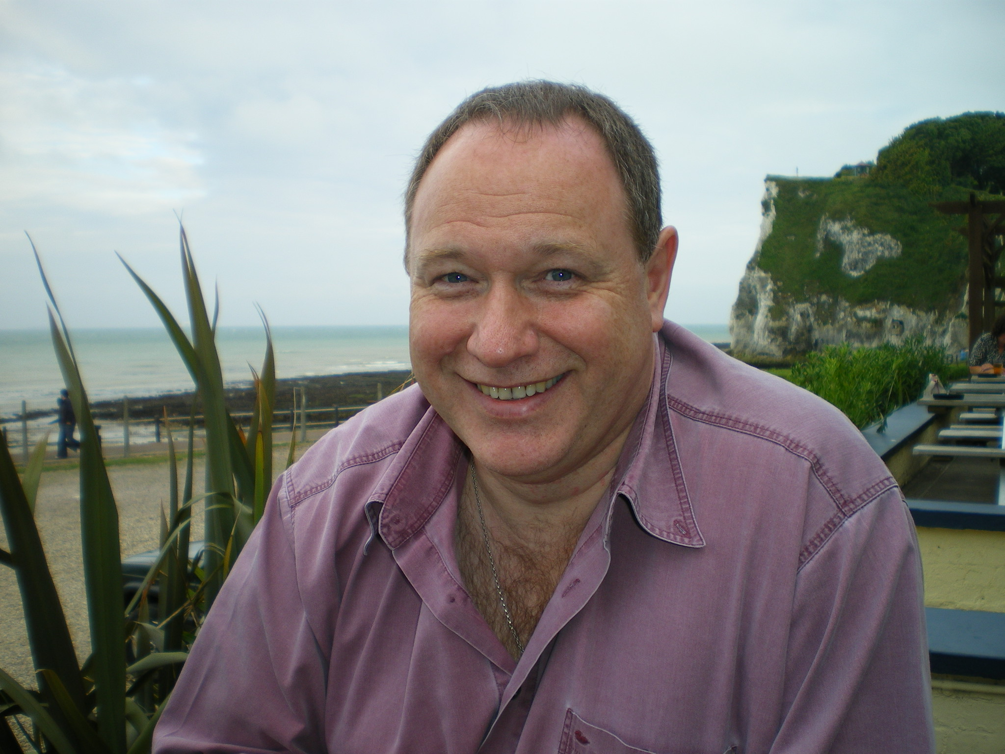 Photograph of Graham Kendall, taken on the 20th July 2008. The picture was taken at The Coastguard restaurant in St. Margaret's Bay, Kent